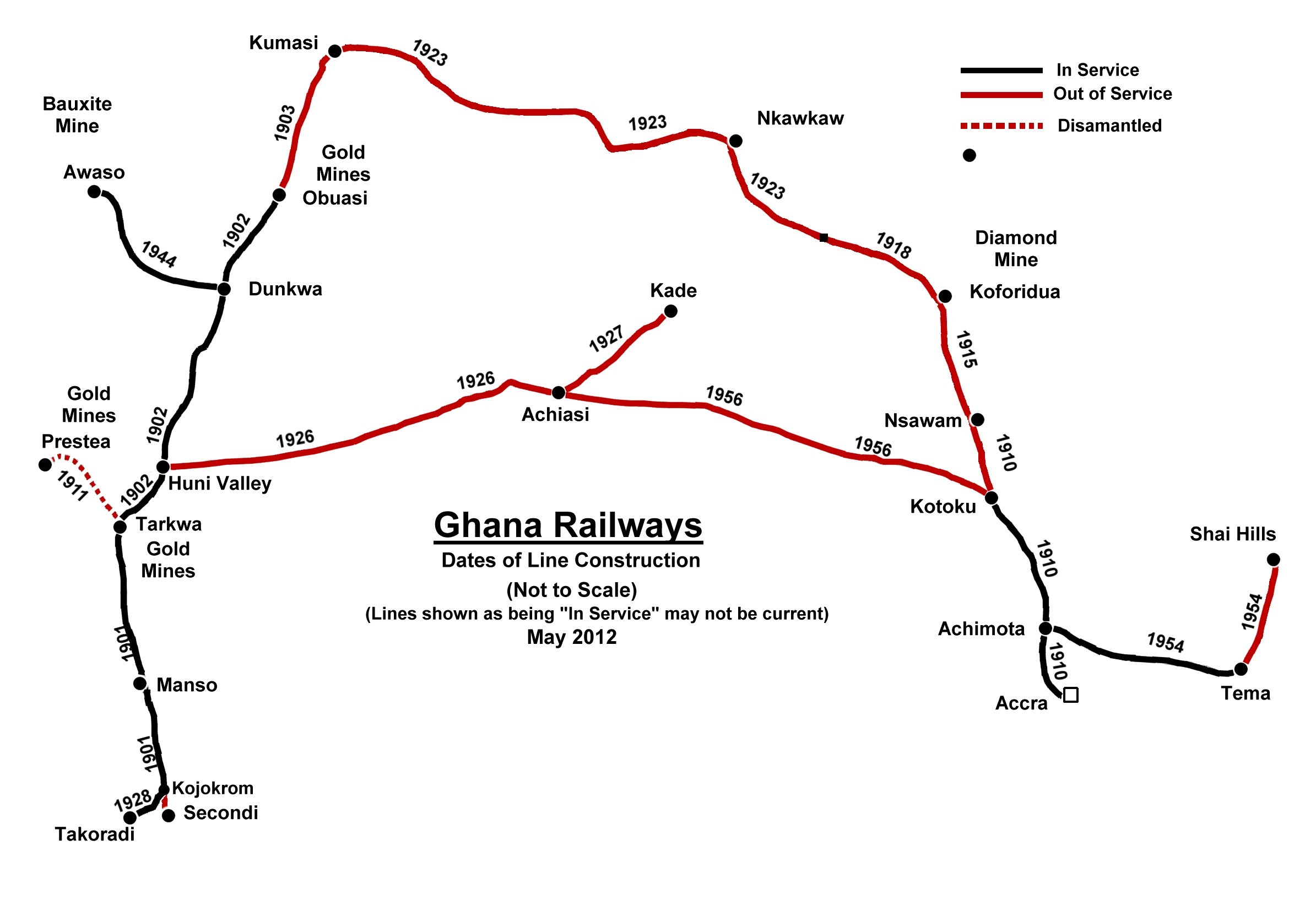 Map of Ghana showing dates of constructed railway lines